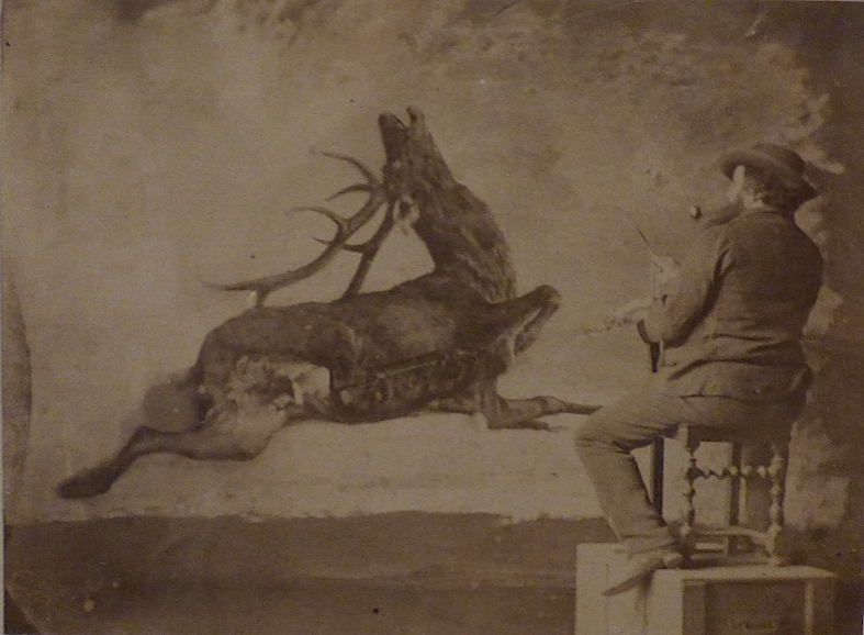 Gustave Courbet painting L'Hallali du Cerf, photographic proof on albumin paper by Etienne Carjat.